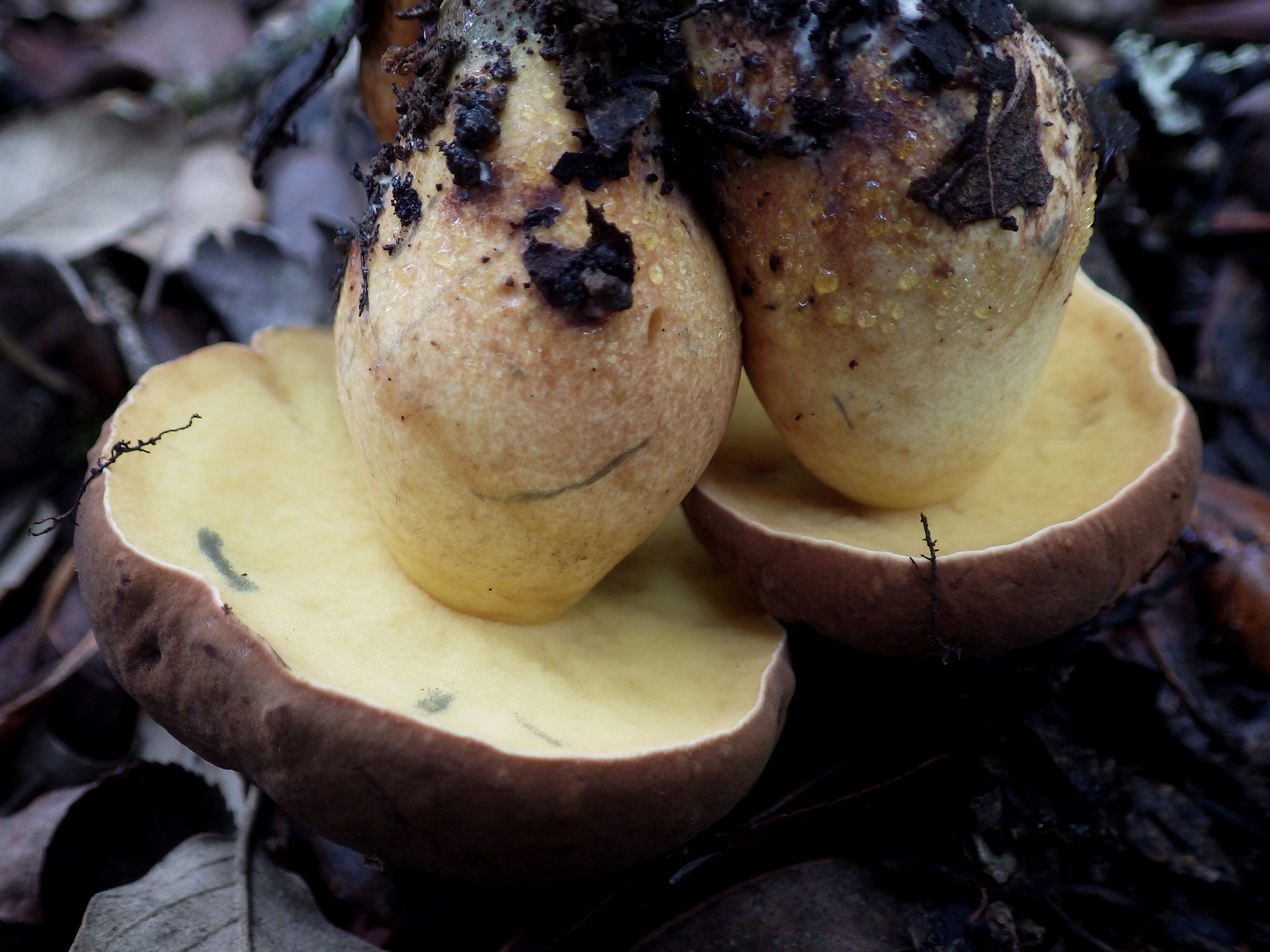 Lanmaoa fragrans (Vittad.) Vizzini, Gelardi, Simonini Image location: Parque de Monsanto, Lisboa, Portugal Growing under Quercus trees. Recognized by sight For more information about this, see the observation page at Mushroom Observer.